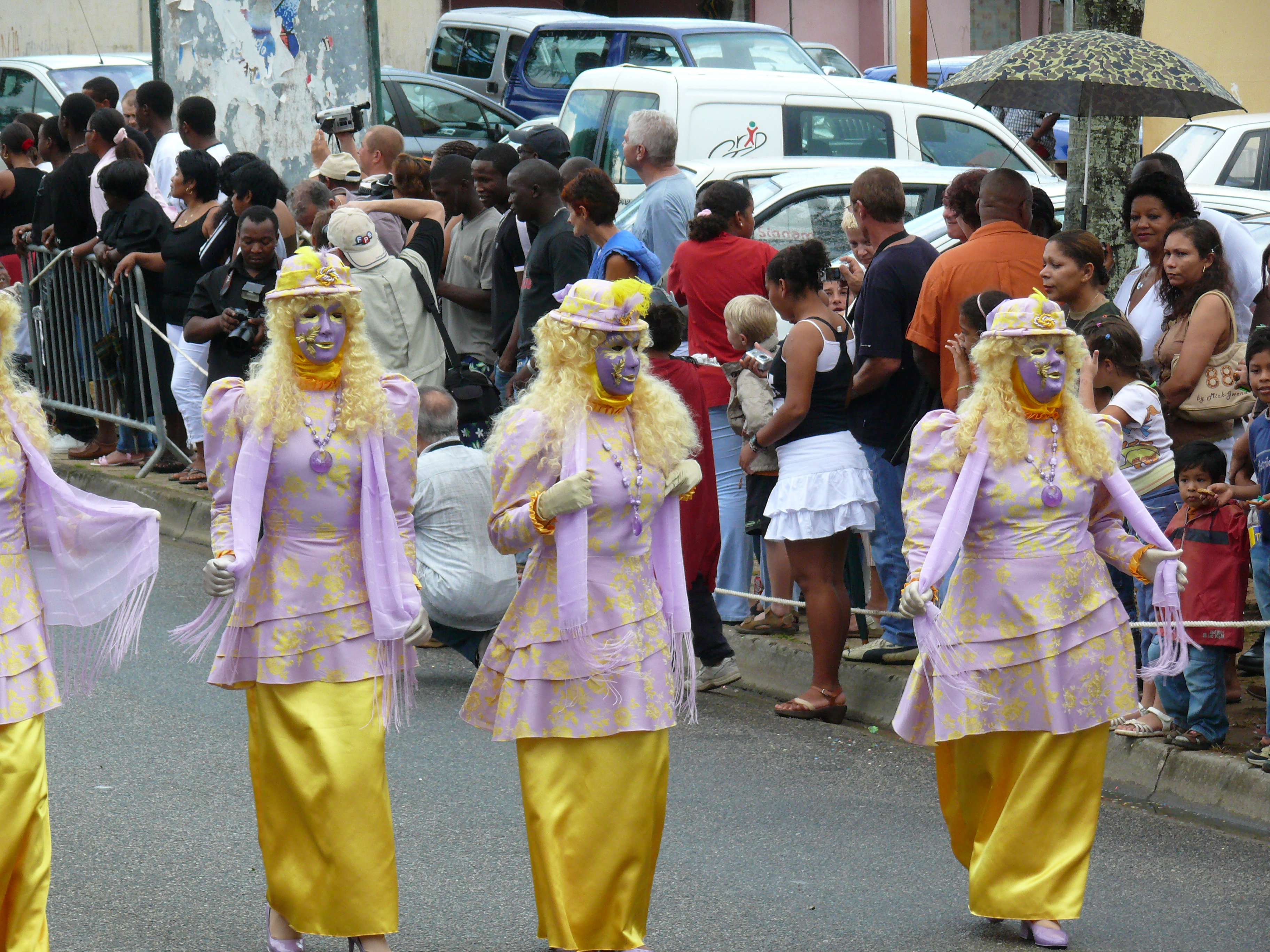 Touloulous at Kourou's Carnival parade, 2007.